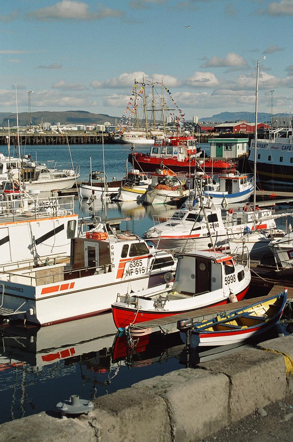 Reykjavík